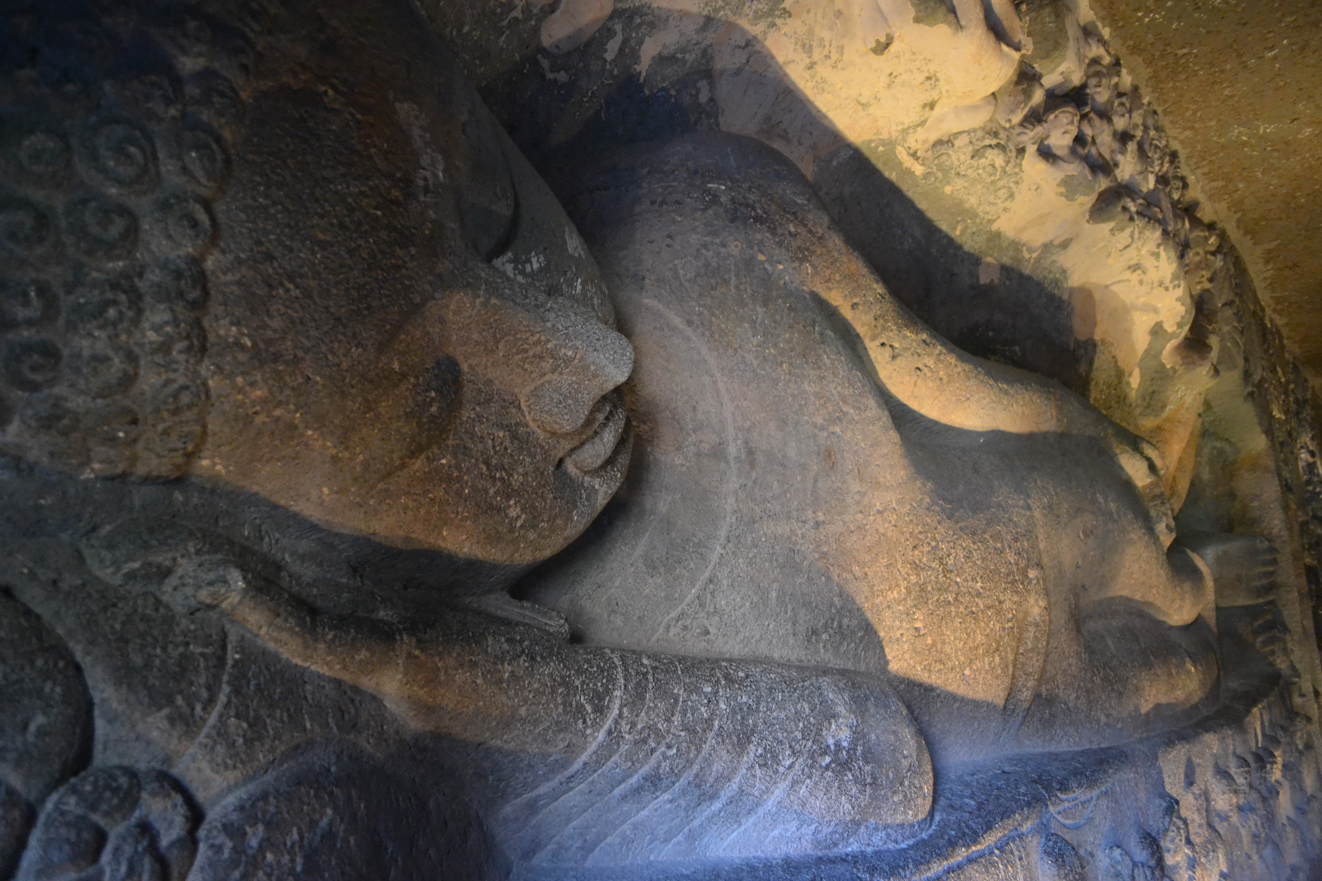 The picture shows a beautiful image of reclining Buddha at cave no. 26 at Ajanta caves, Maharastra, India